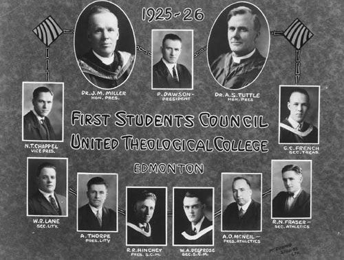 Student Council, United Theological College. In 1927, the College joined with the Presbyterian Church’s Robertson College and was renamed St Stephen’s College, an affiliated college of the University of Alberta.